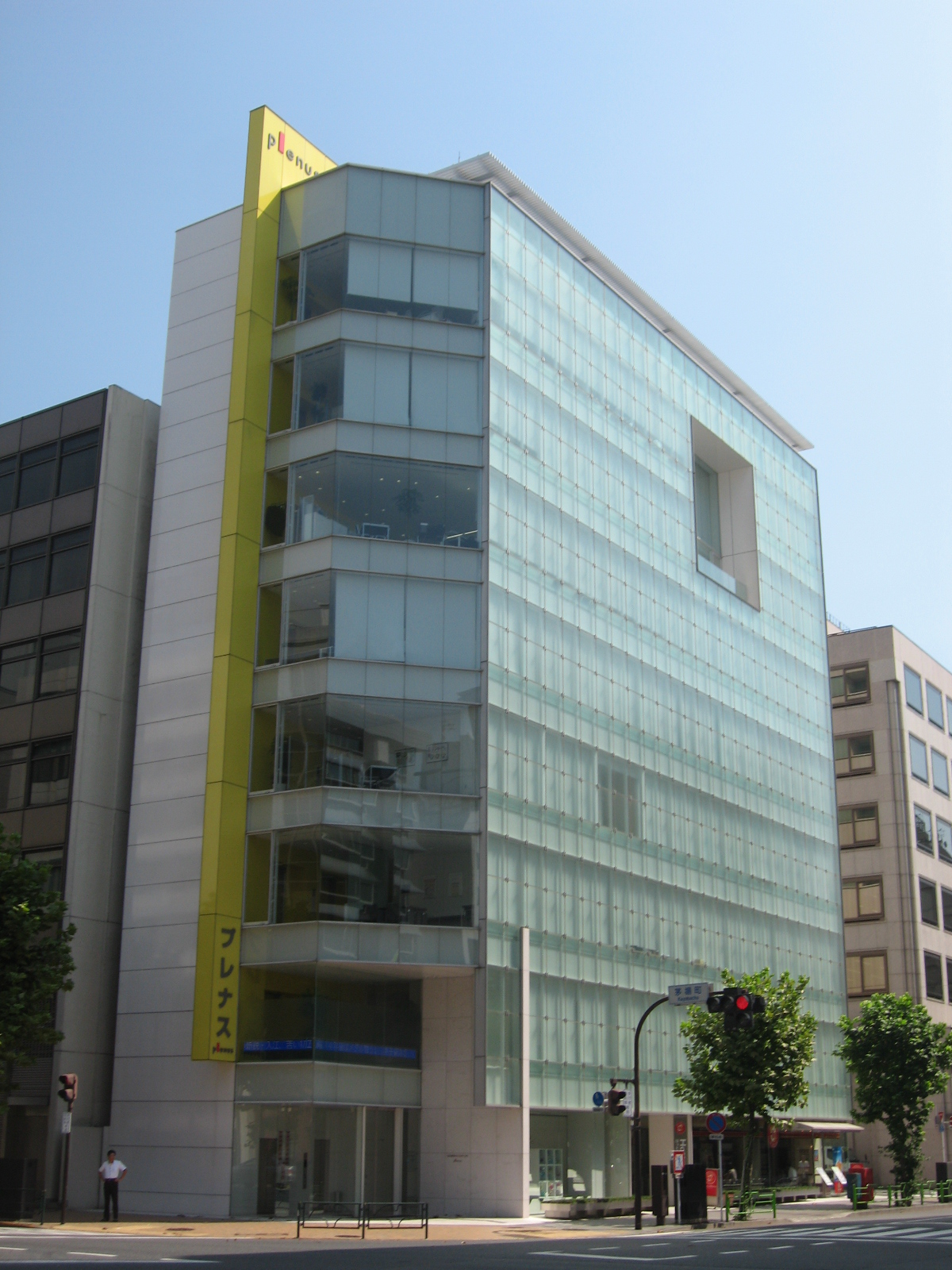 Plenus Co., Ltd. Tokyo Office. Moved into Nihombashi Yayoi Building, built in December 2004. 1-7-1 Nihombashi-Kayabachô, Chuo, Tokyo.